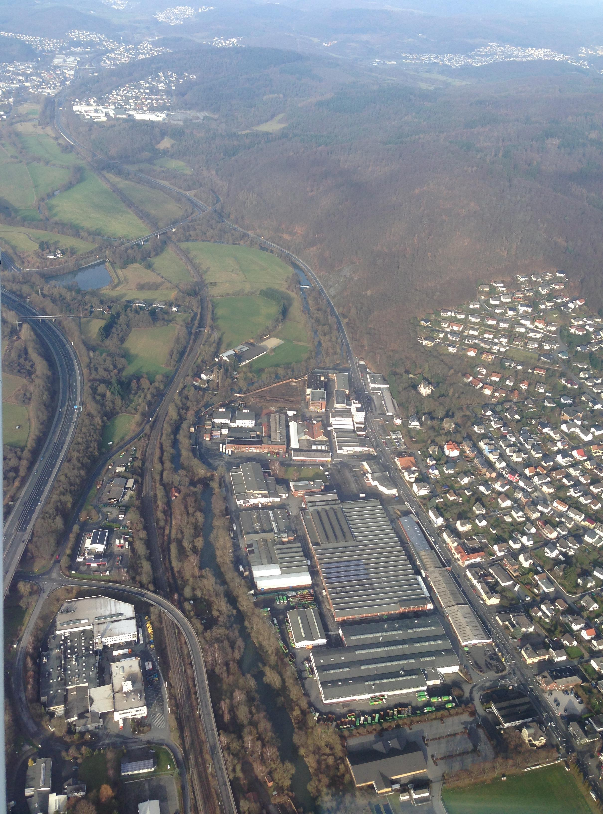 Sinn (Hesse). Aerial view 2100 ft direction Herborn (Hesse) with Dill valley. Commercial zone of the former Neuhoffnungshütte Haas & Sohn with transport links.